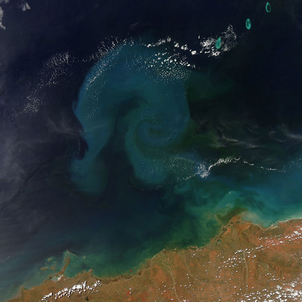 A large algae bloom off the coast of Western Australia in March 2013 following Cyclone Rusty. Sediment run-off from heavy rains can also be seen along the coast.